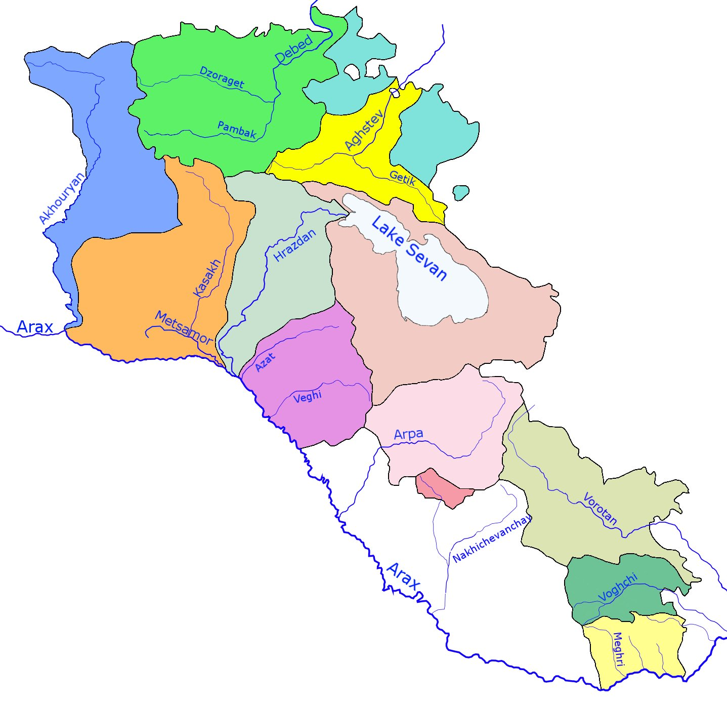 Map of the Rivers of Armenia — in Western Asia.